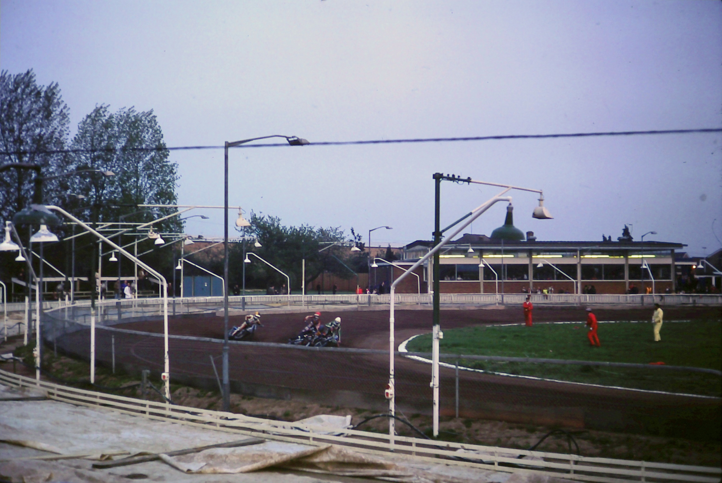 Speedway racing at Oxford Stadium, Cowley. Oxford v. Nottingham, April 1980